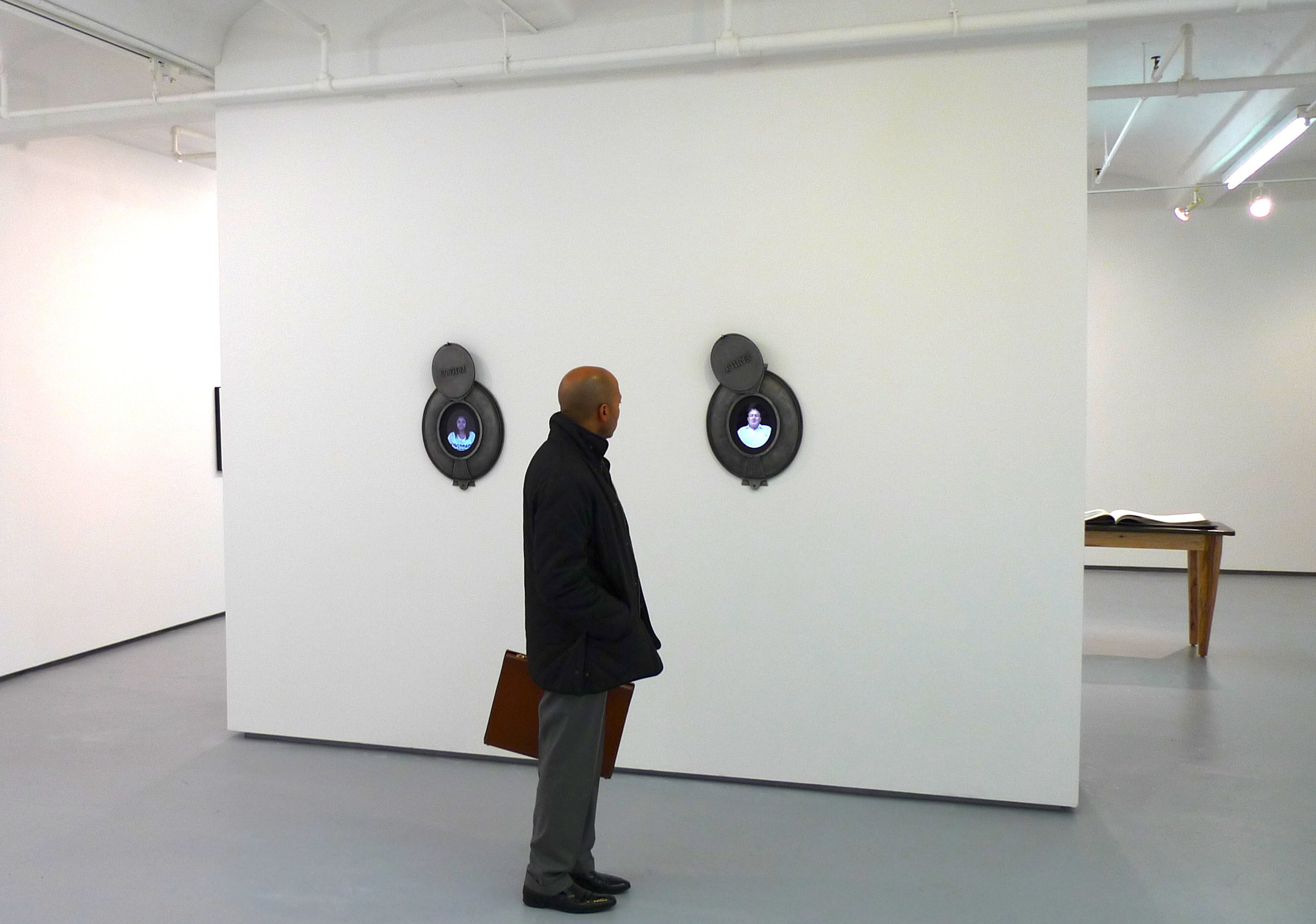 Deborah Lusters Tooth for an Eye exhibit at unknown gallery